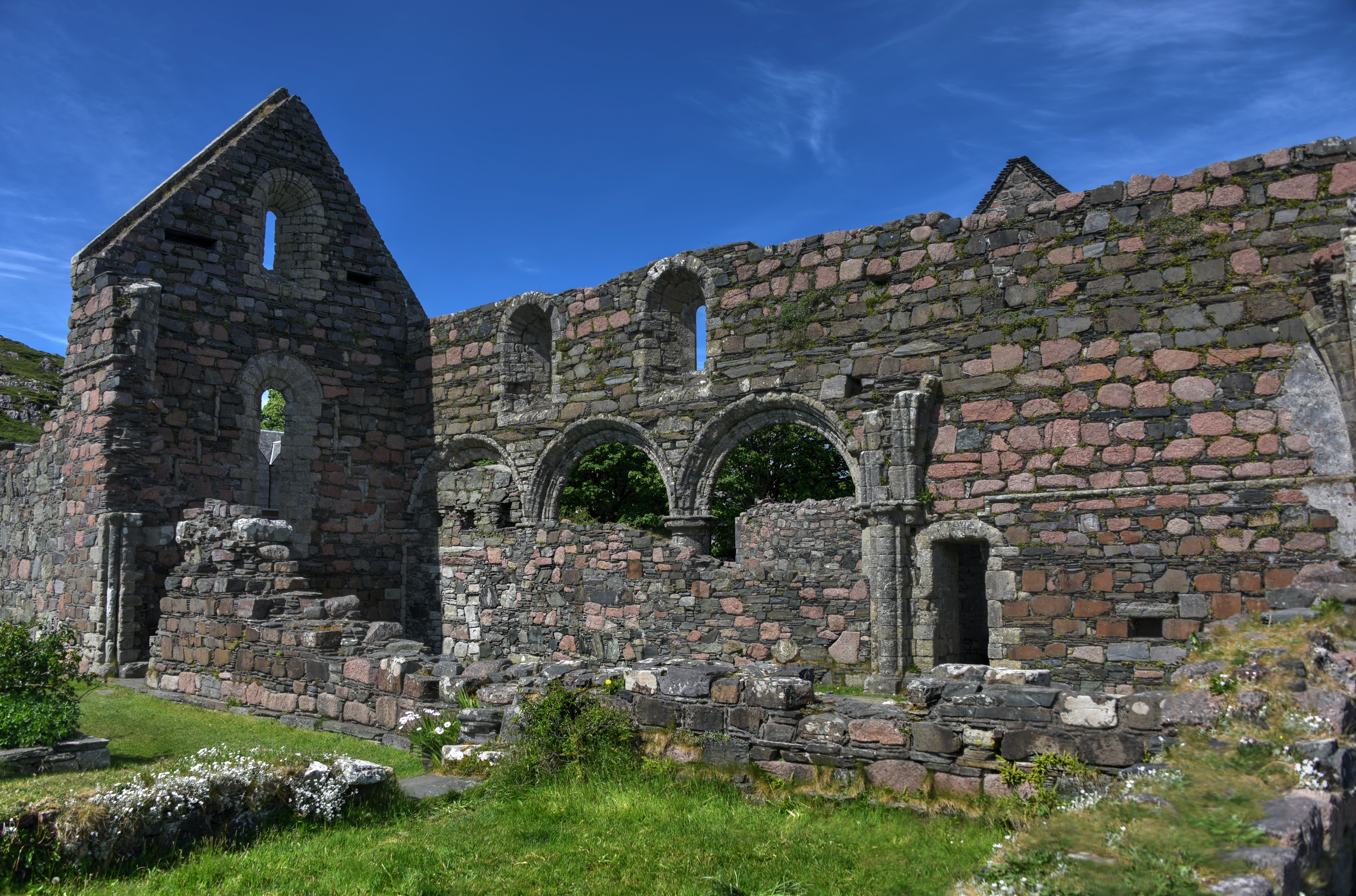 The ruins of the Augustinian nunnery near Iona Abbey.